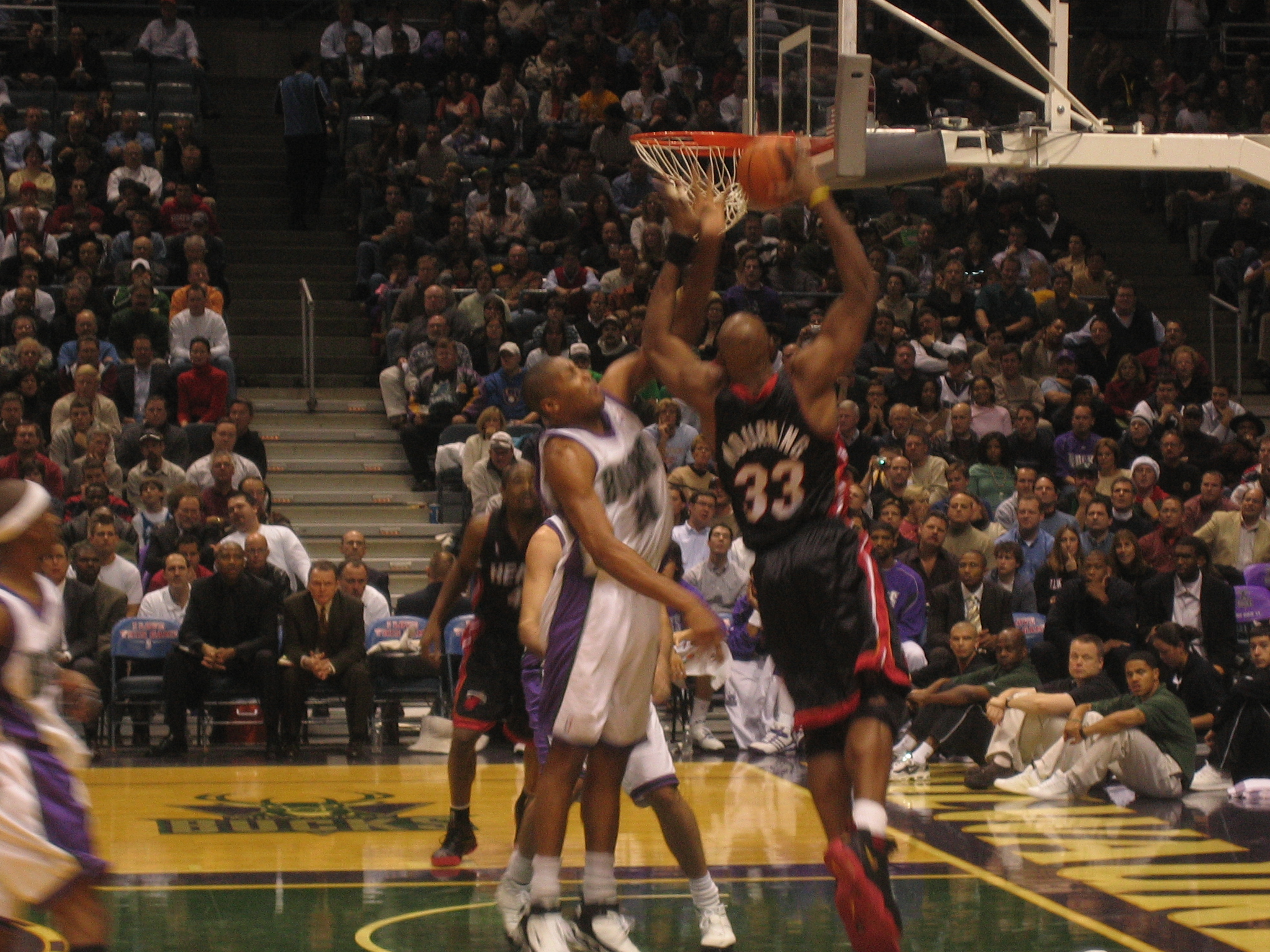 Alonzo Mourning (Miami Heat) takes it to the hoop against the Milwaukee Bucks; Bobby Simmons of the Bucks guards.